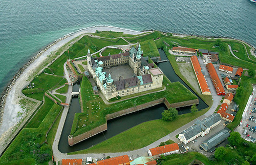 Aerial Photo of Kronborg Castle